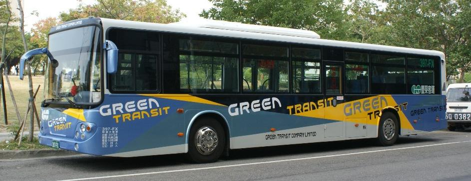 Daewoo BS120CN step entrance bus 397-FX of Green Transit.